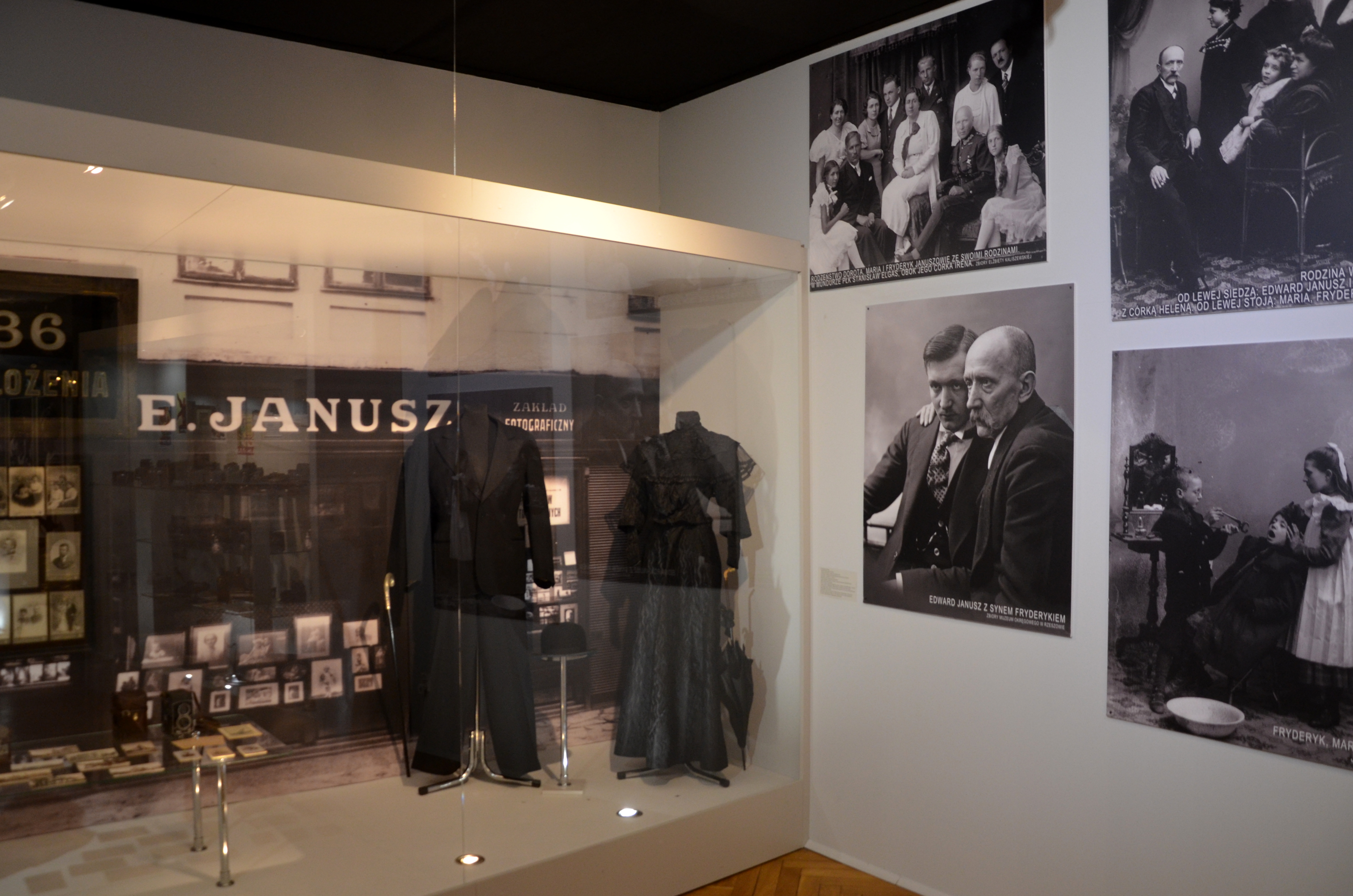 Edward Janusz photographer